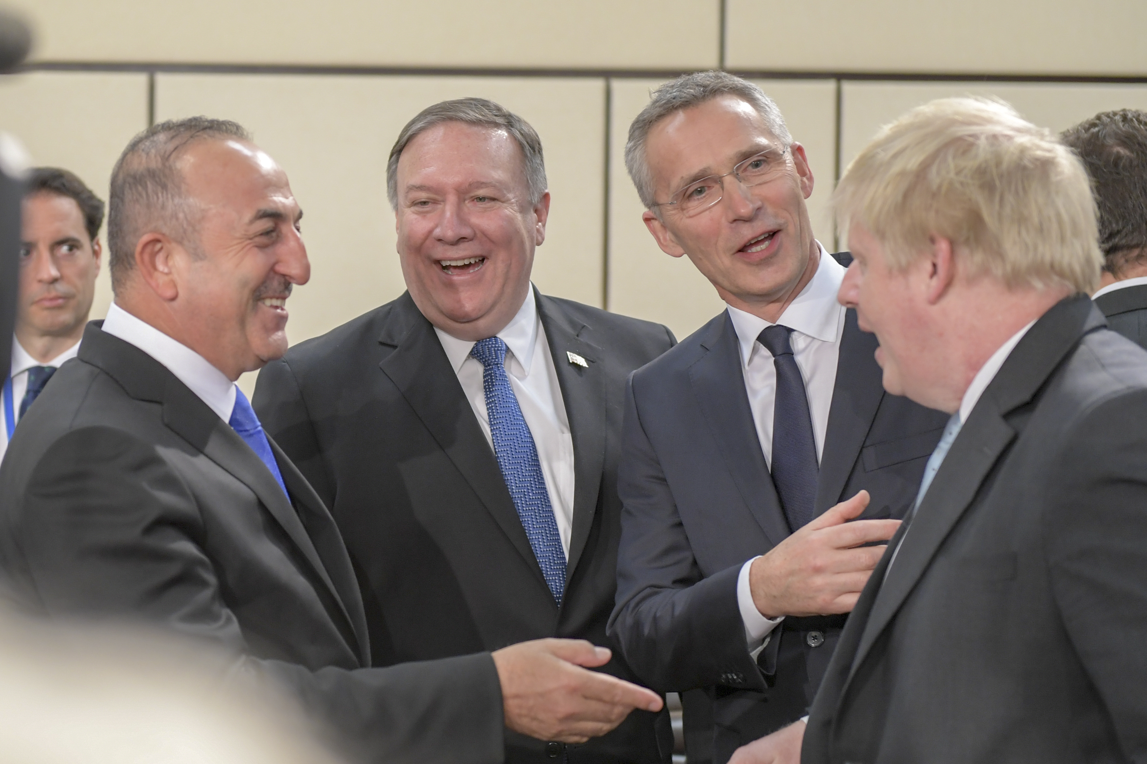 During the NATO Ministerial in Brussels, Belgium on April 27, 2018, U.S. Secretary of State Mike Pompeo chats with UK Foreign Secretary Boris Johnson (right), NATO Secretary General Jens Stoltenberg (second from the right), and Turkish Foreign Minister Çavusoglu (left) during the NATO Foreign Minister's Meeting in Brussels, Belgium, on April 27, 2018. (State Department photo/ Public Domain)